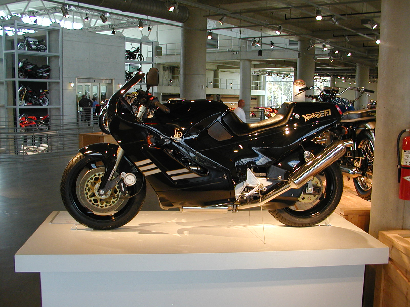 Norton F1 rotary